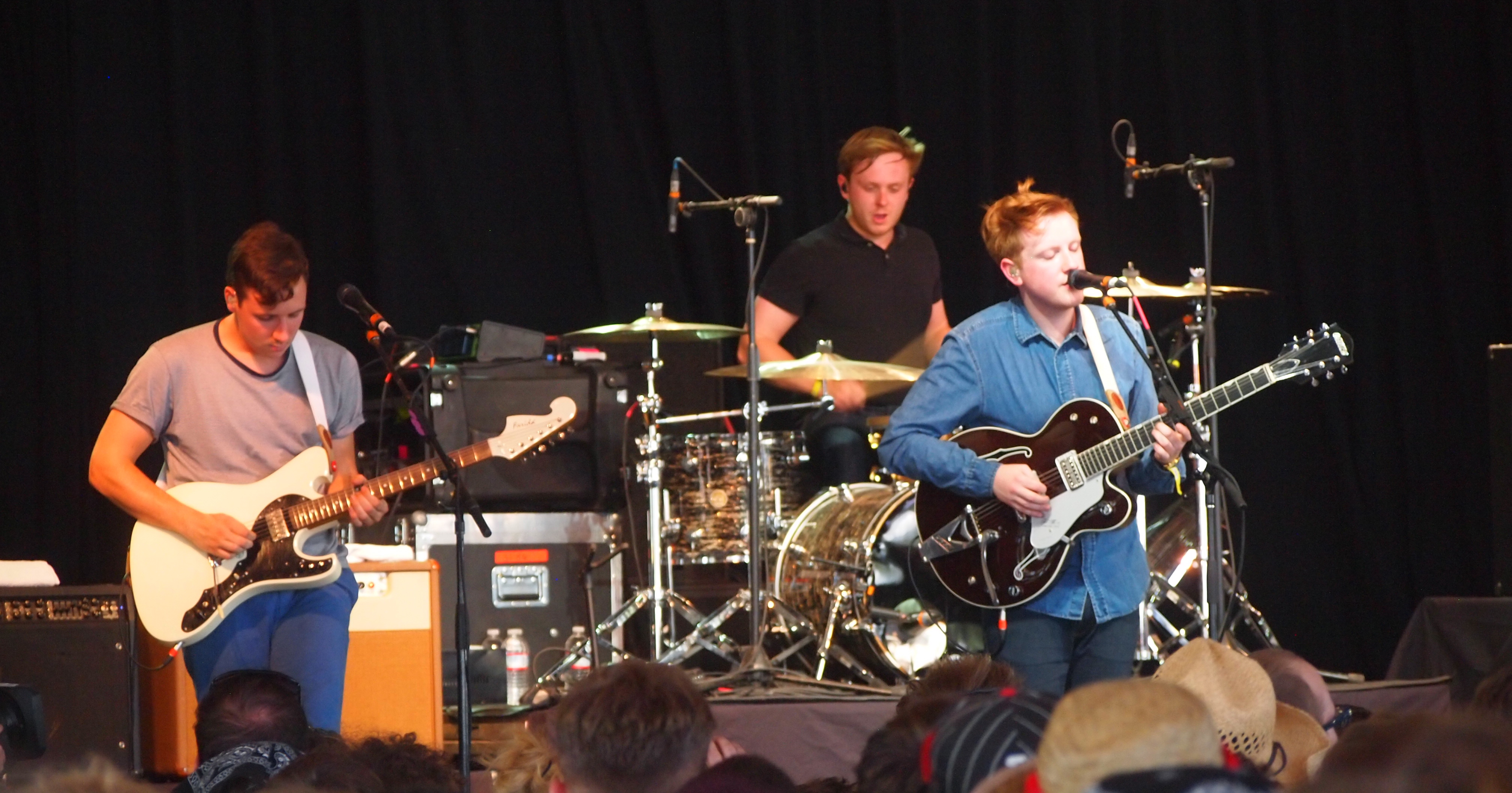 The Irish quartet performed Tourist History in its entirety and played a number of new songs at Bonnaroo 2012.